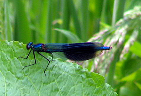 Banded Demoiselle, De Geul, the Netherlands